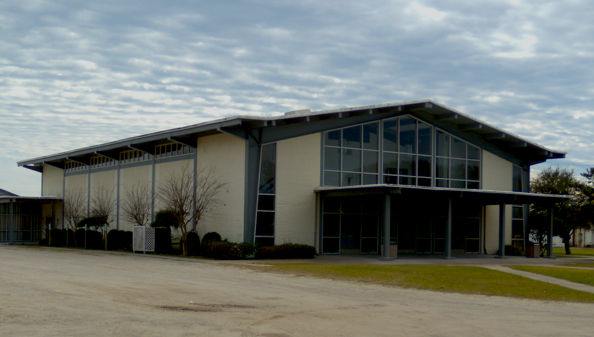 Photo of NC Baptist Assembly's Hatch Auditorium